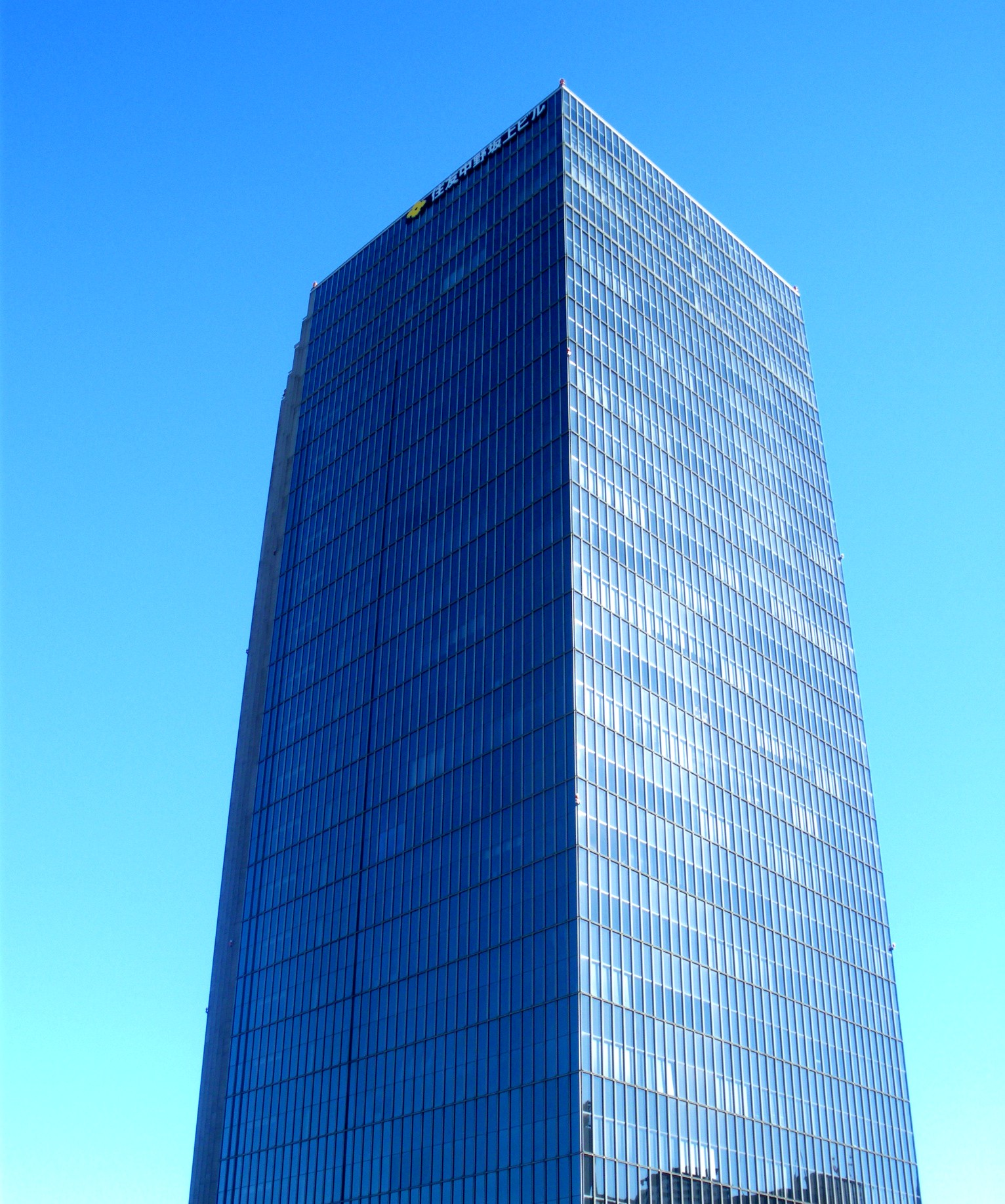 photo of Sumitomo nakanosakaue building.It is located beside Nakanosakaue crossing,Nakano-ku,Tokyo,Japan.